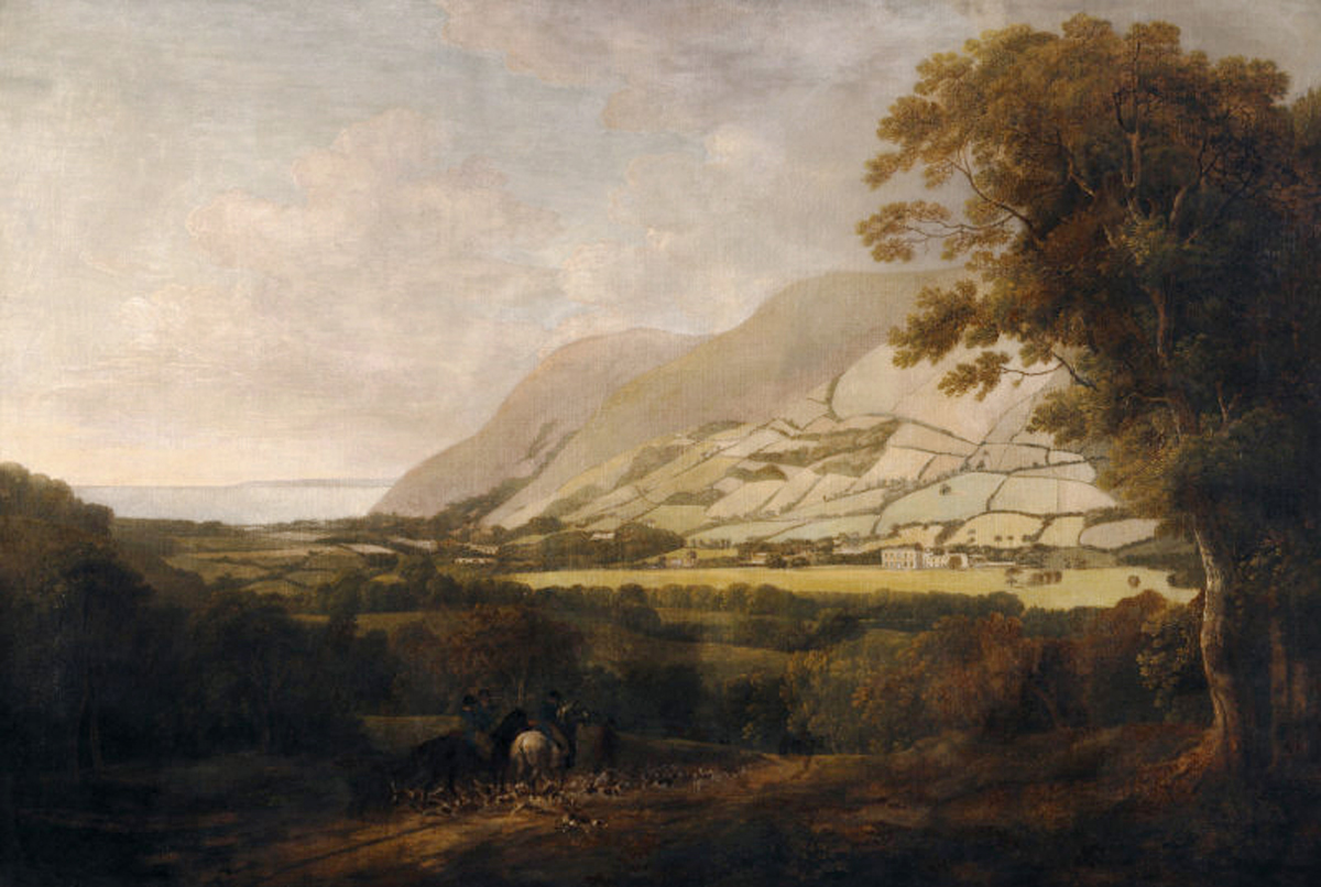 Sir Thomas Dyke Acland, 9th Baronet (1752–1794), with Staghounds, on the Holnicote Estate, Somerset, Viewed from the South West. 1785 Oil painting by Francis Towne (1739/40–1816), collection of National Trust, Killerton House, Devon. Accession number: 922290. Provenance: accepted in lieu of tax by HM Government; transferred to national Trust, 1995